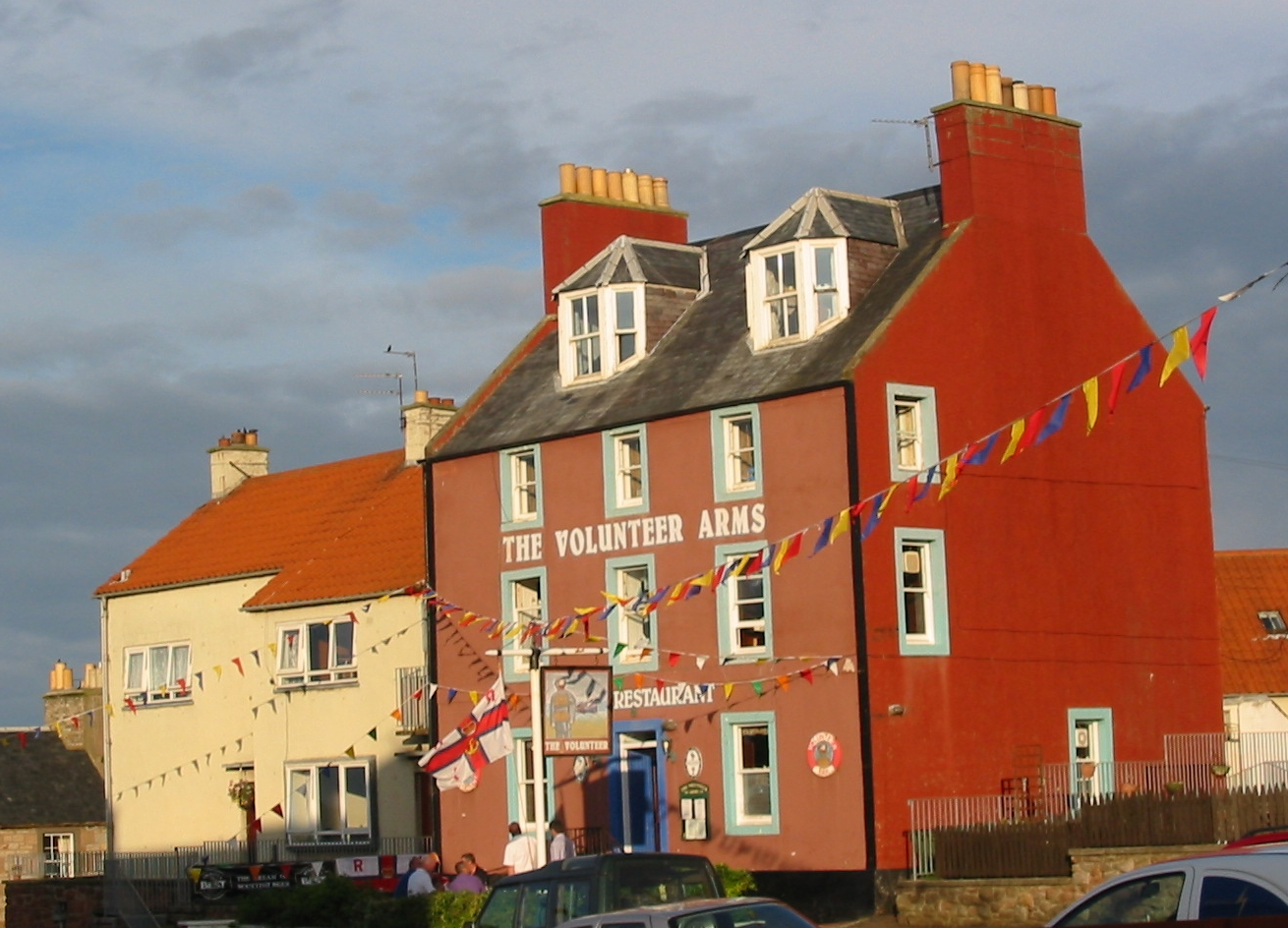 The Volunteer Arms, Dunbar. Photo by User:Asterion 22:17, 11 June 2006 (UTC)